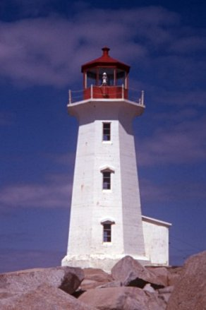 The Peggys Point lighthouse on St. Margaret's Bay, Nova Scotia. This picture was taken in about 1972 by me. --Samuel Wantman